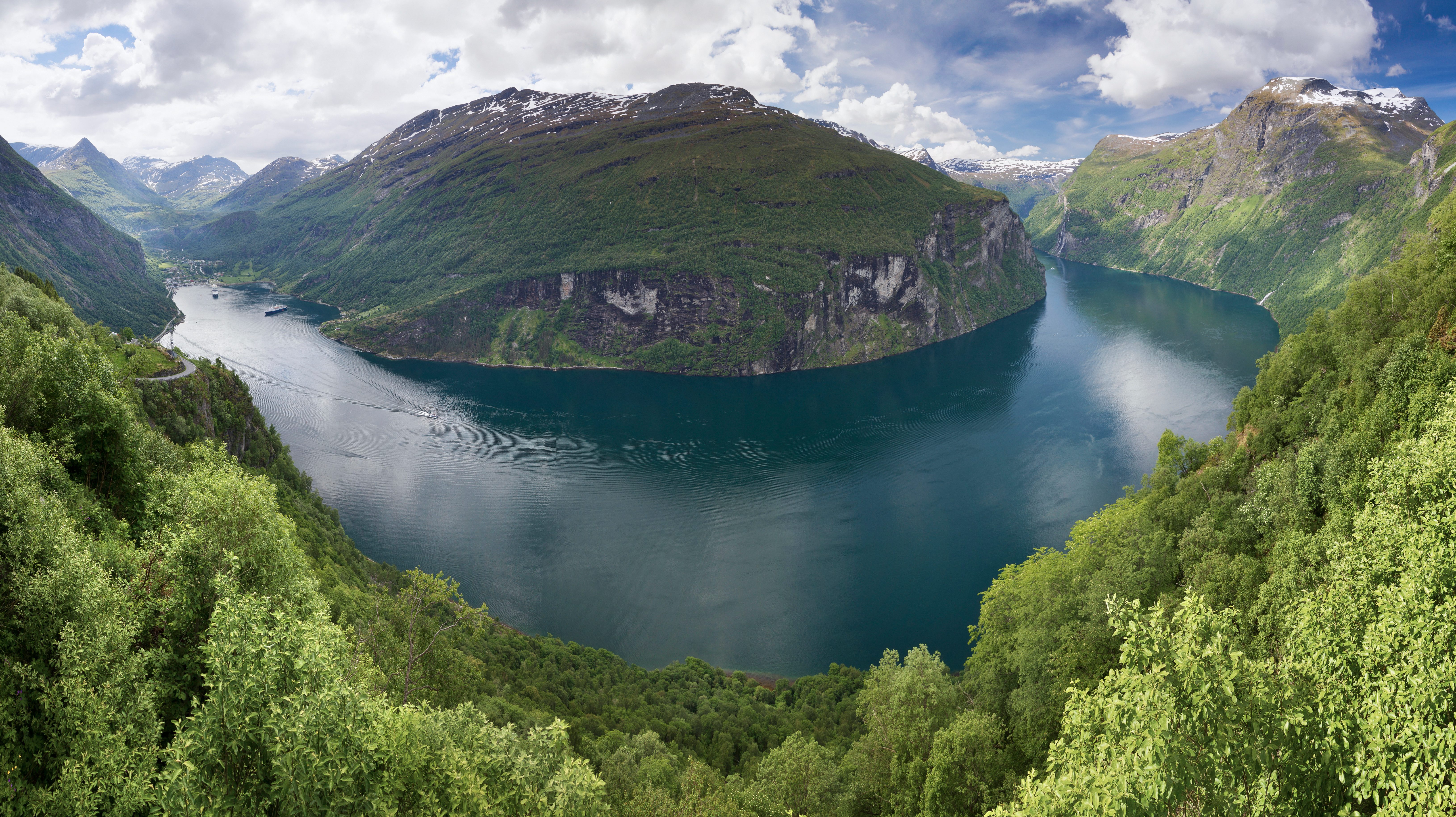 A view to Geirangerfjord from Ørnesvingen, Stranda, Møre og Romsdal, Norway in 2013 June.